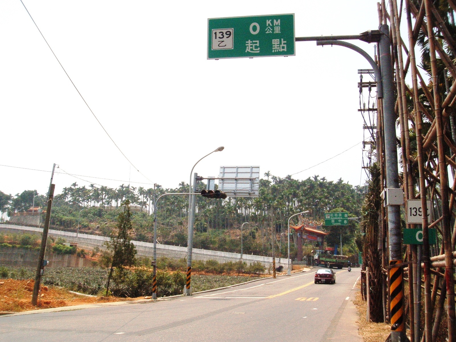 Start of County Highway No.139B at Bagua Plateau in Nantou County,its precursor is called Tou No.23.